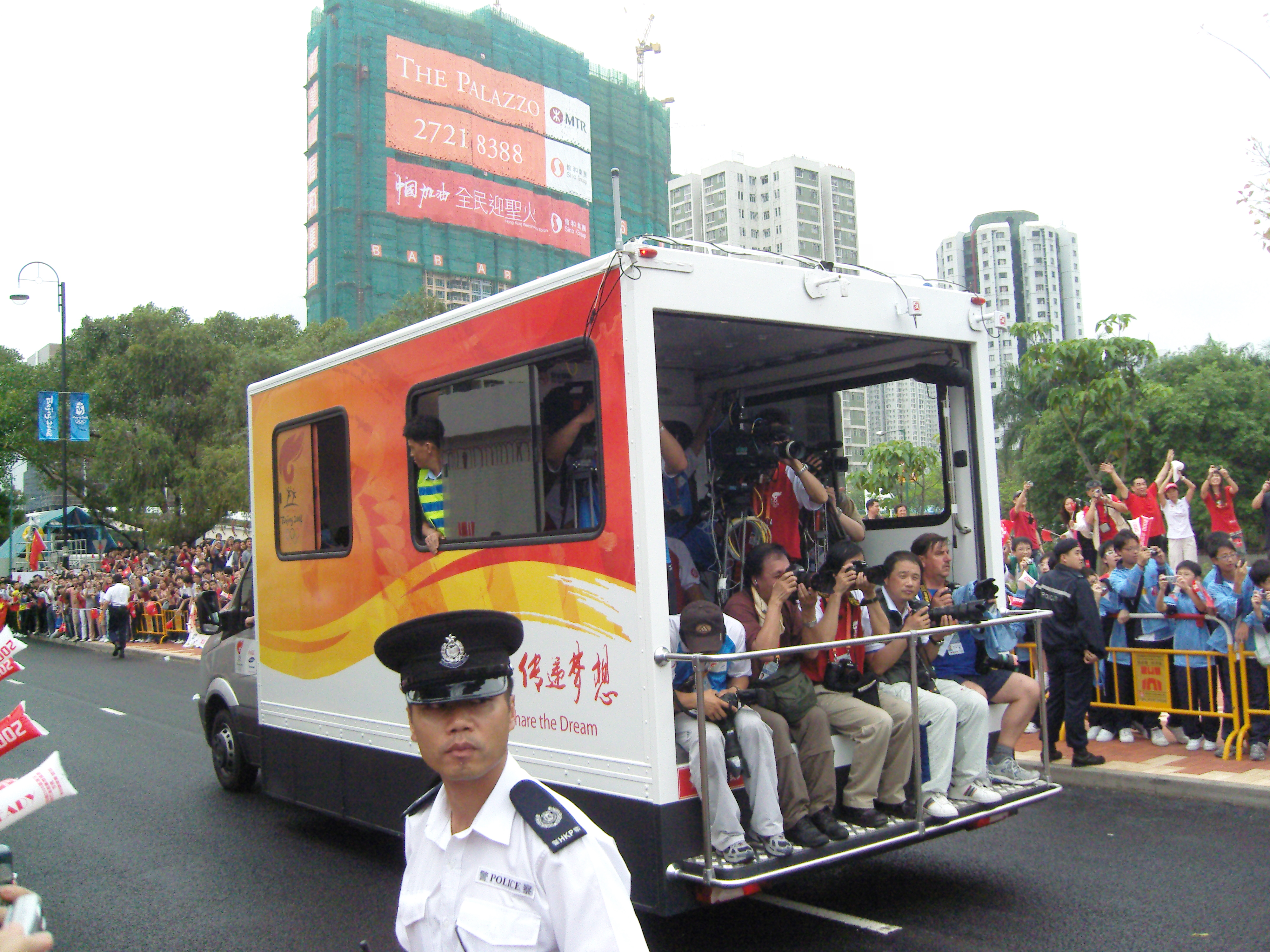 2008 Summer Olympics Torch in Shatin, Hong Kong.